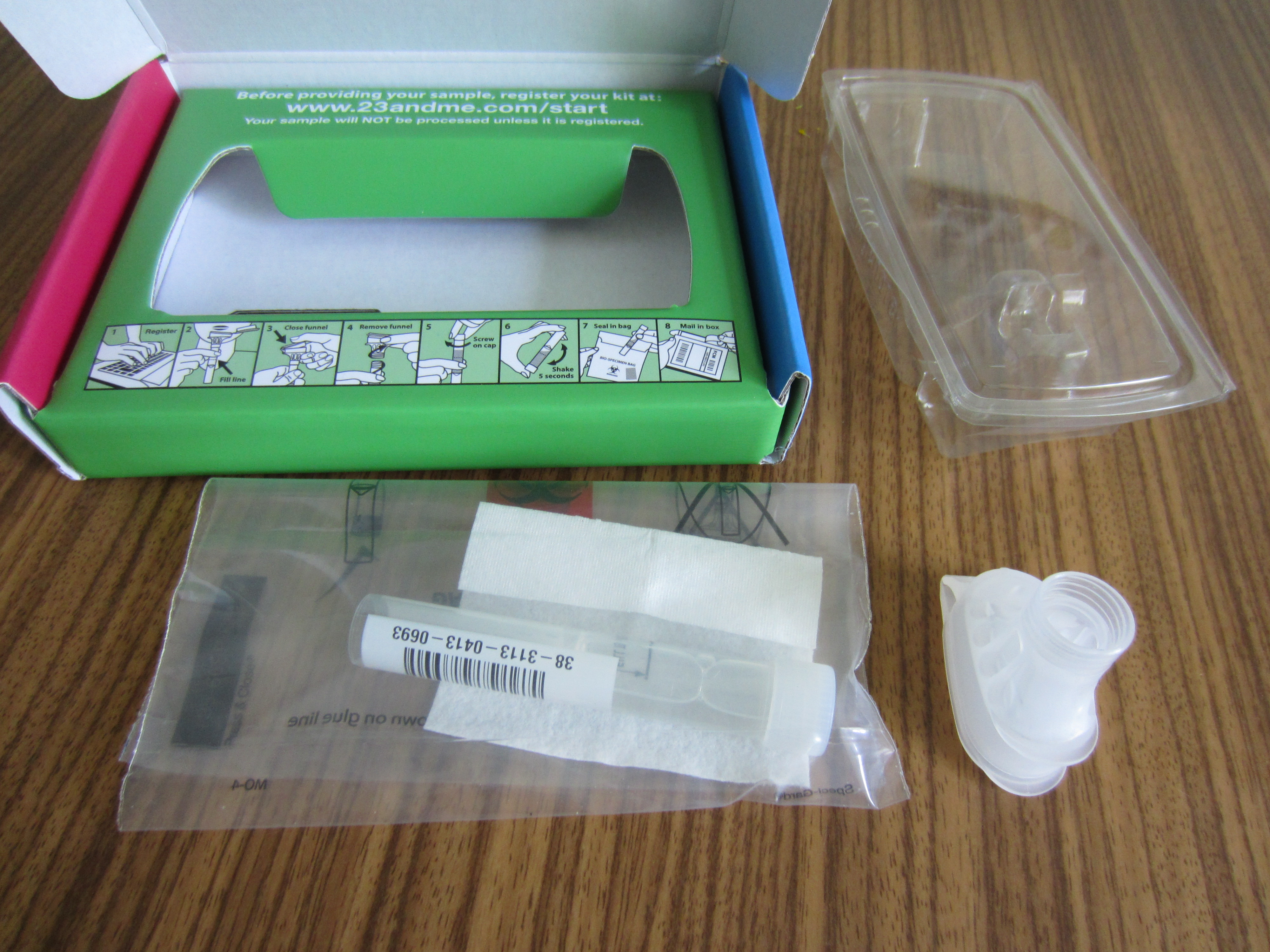 Test kit for genetic testing by the company 23andMe.